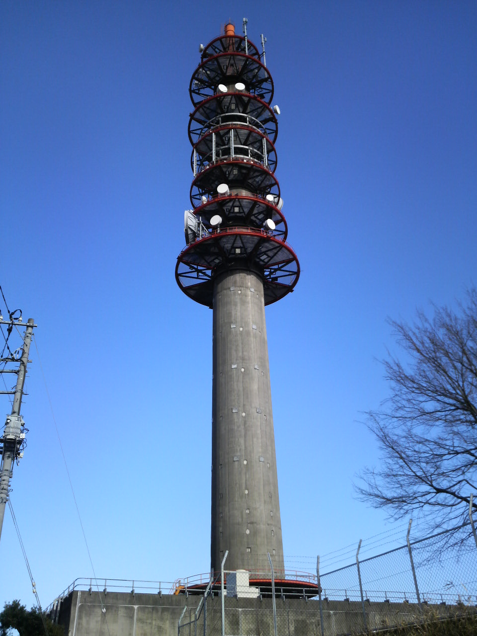 NTT Bukkou Wireless tower